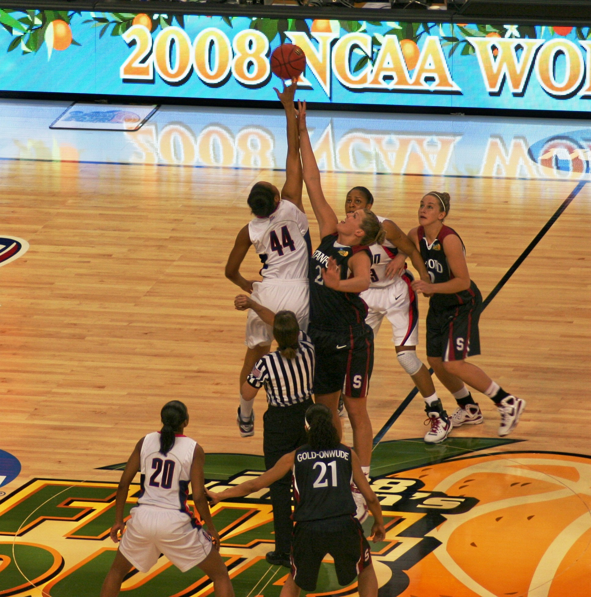 First tip-off of the night in the Stanford vs. UConn game, part of the 2008 NCAA Women's Division I Basketball Tournament Final Four at St. Pete Times Forum